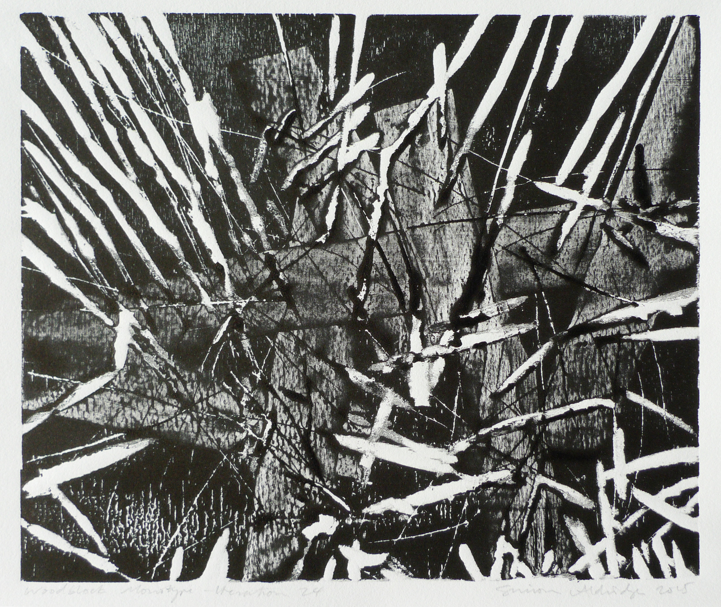 Black and white contemporary art work on paper using printers ink - monotype